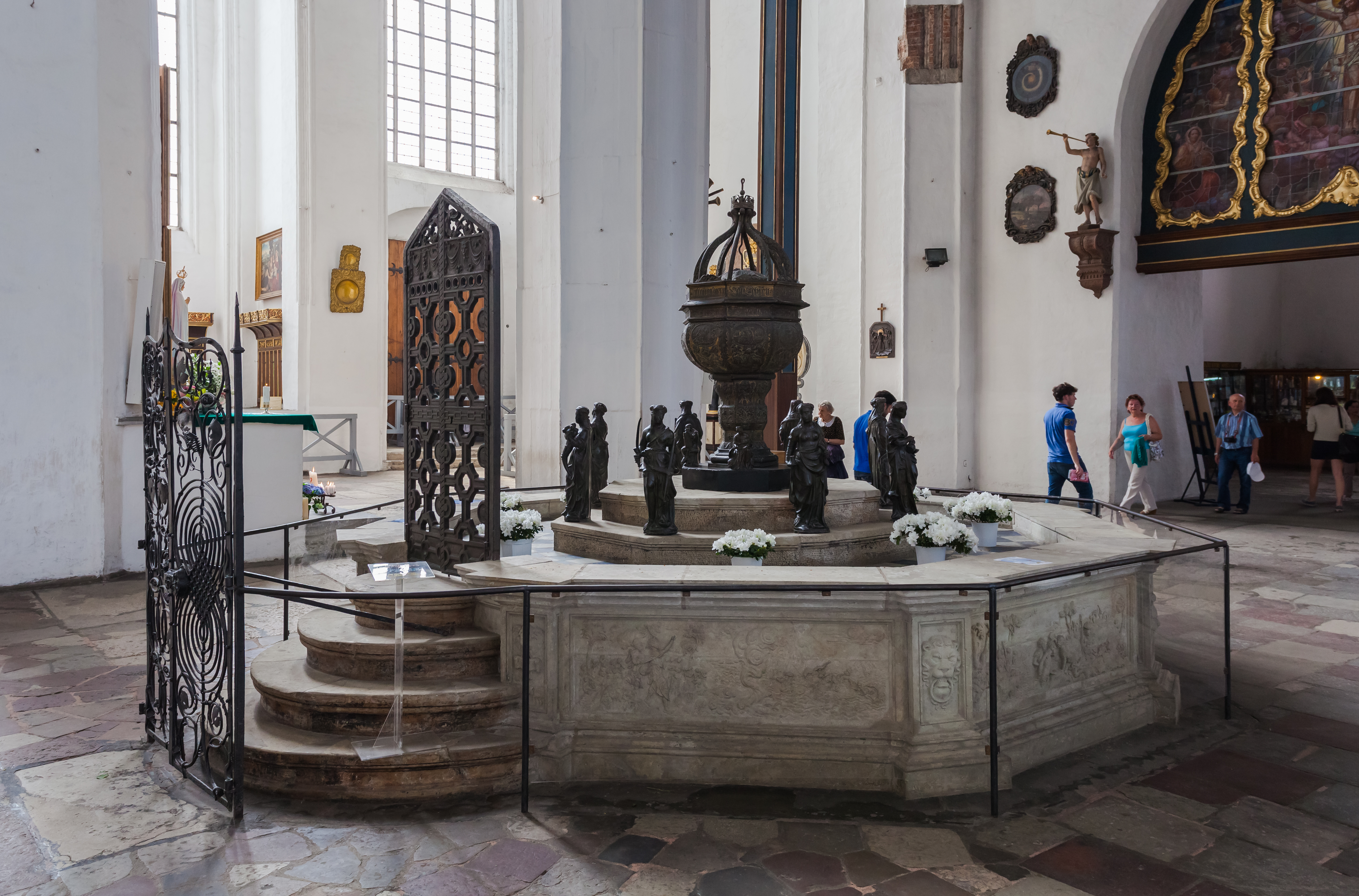 Church of St Mary, Gdansk, Poland